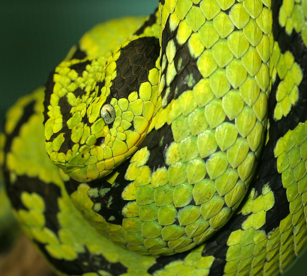 yellow-blotched palm-pitviper (Bothriechis aurifer)